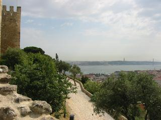 Photo of Lisbon from San Jorge Castle (taken June 25, 2002 by djmutex), herewith licensed under GFDL.